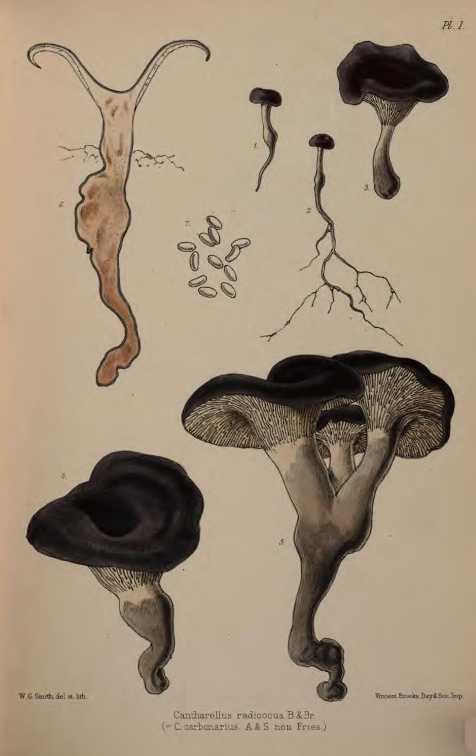 Cantharellus radicosus (Faerberia carbonaria) illustrated in Saunders and Smith 1871 plate 1